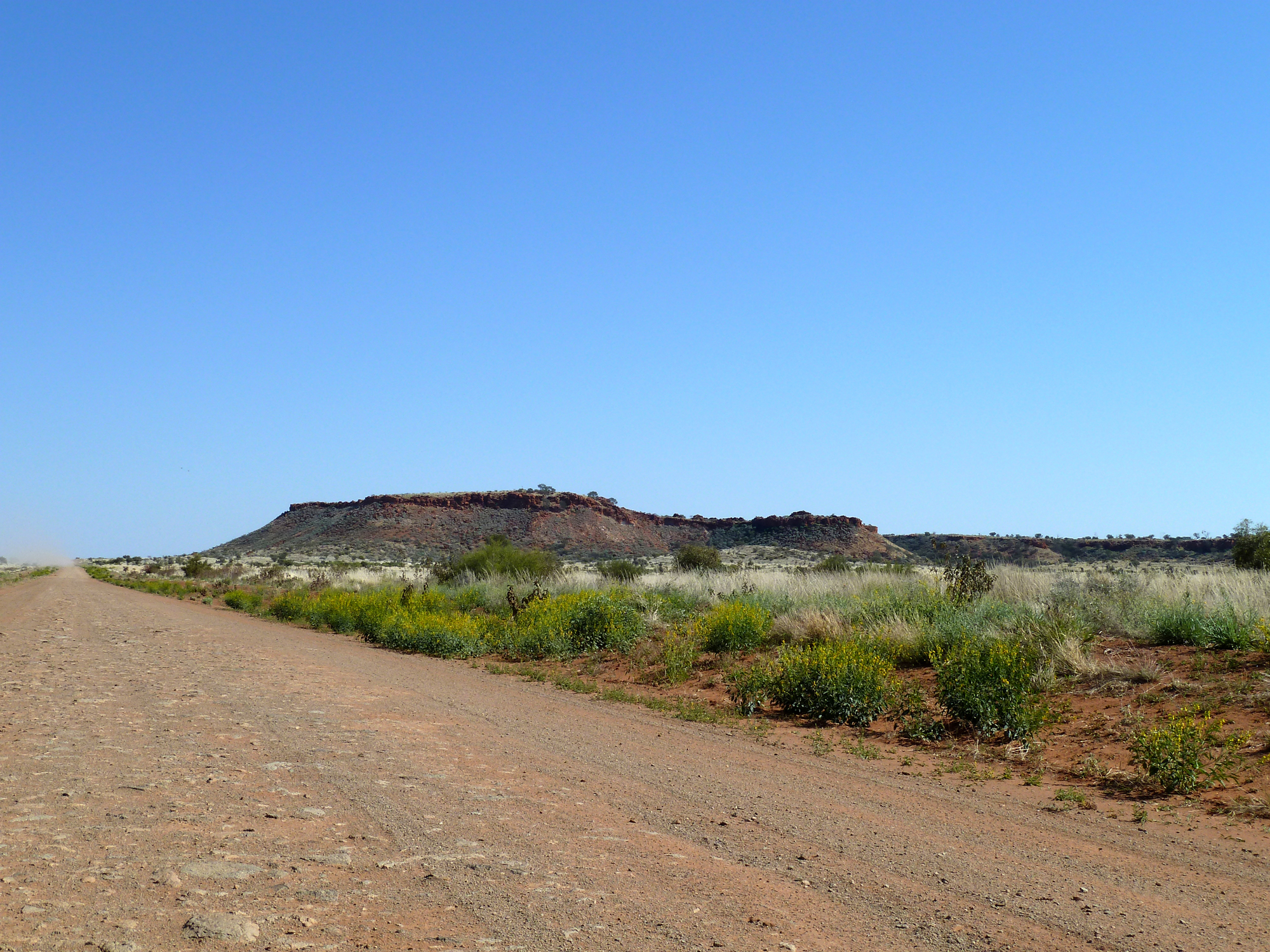 Gary Junction Road built by the Gunbarrel Road Construction Party in 1960 and 1963